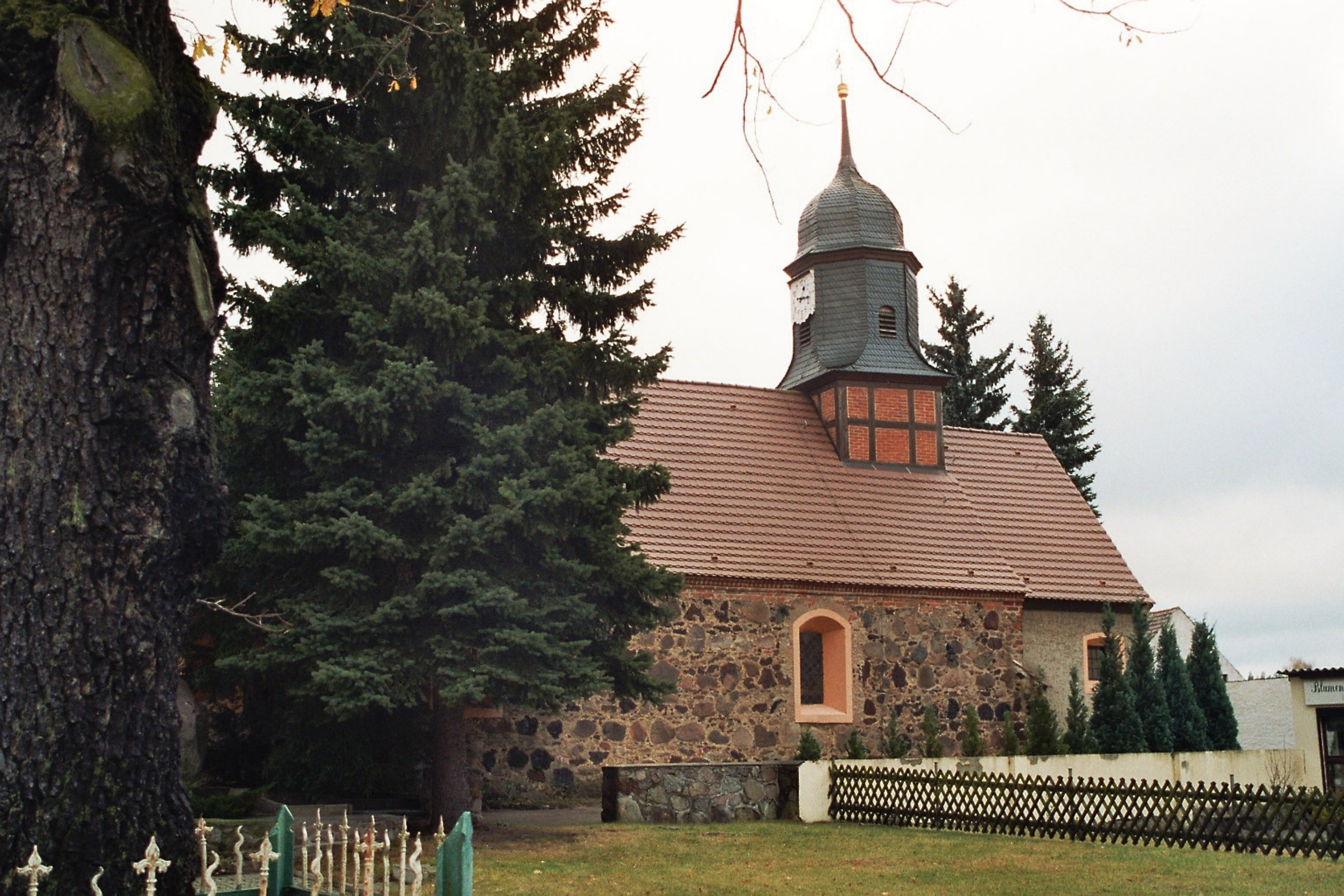 Tröbitz, the village church